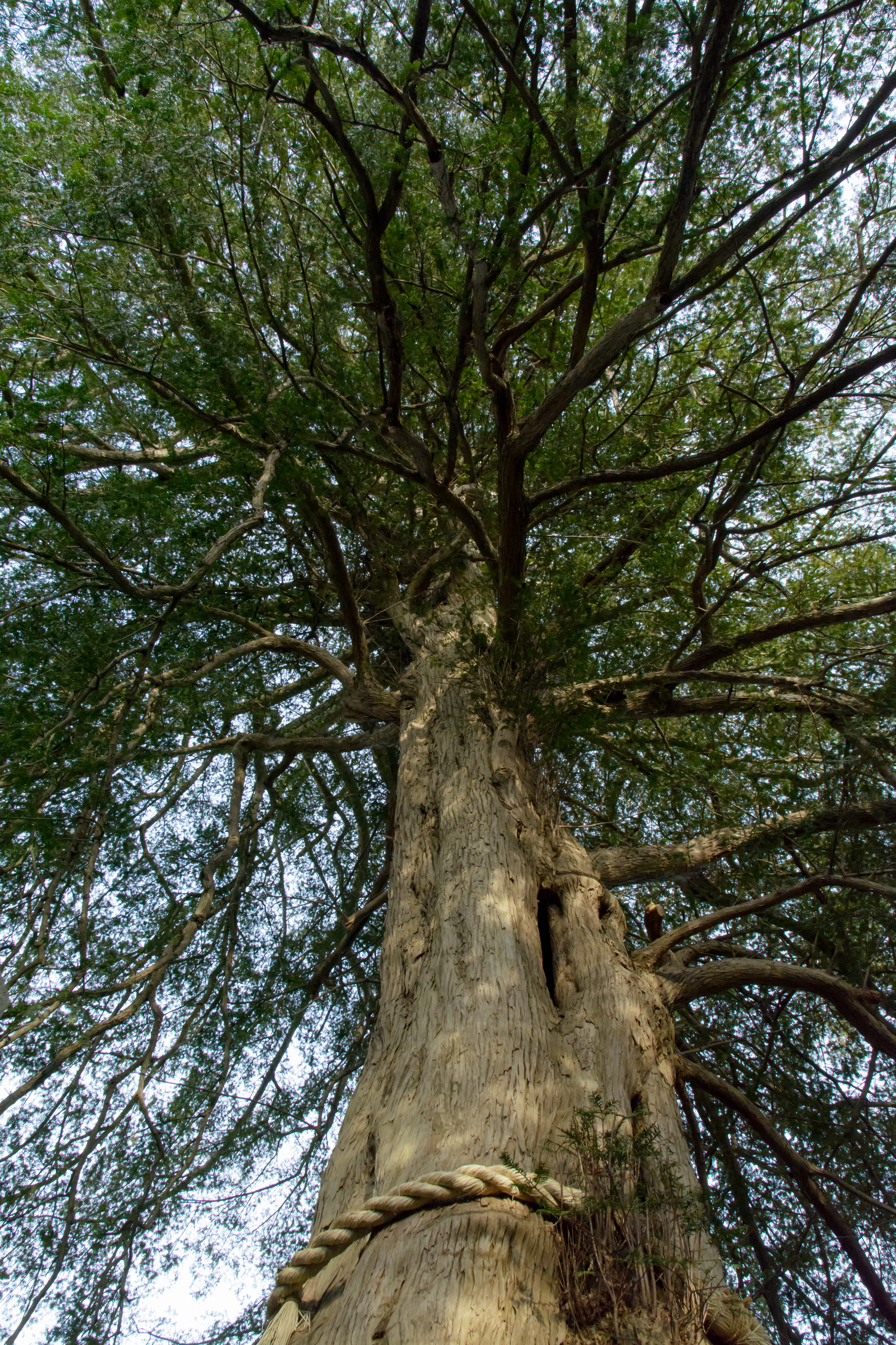 The Japanese nutmeg in Zenyōmitsu-ji